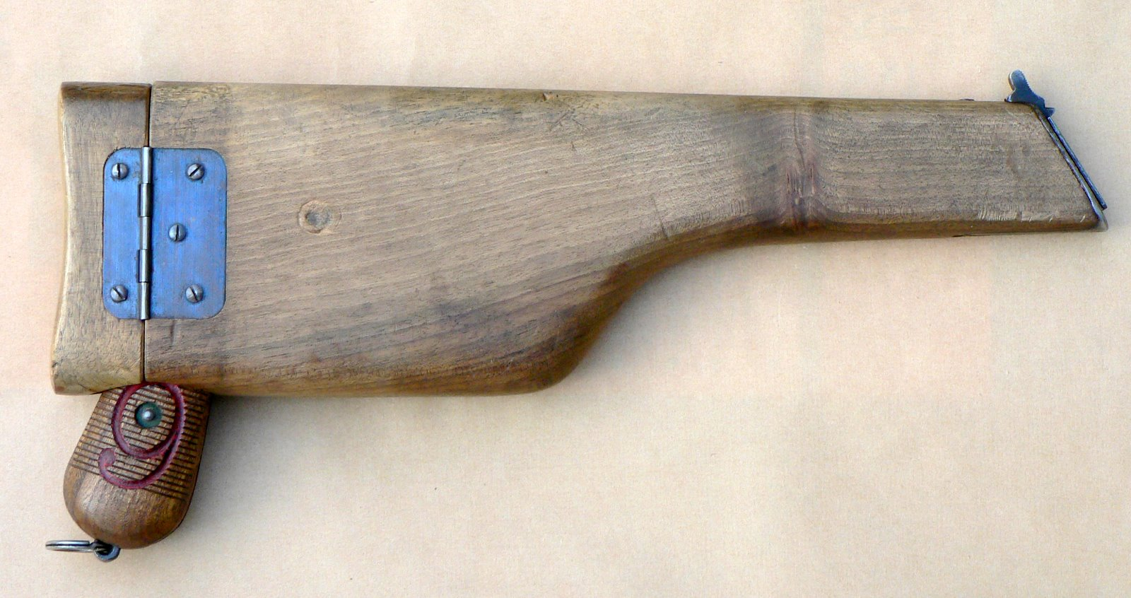 Mauser C96 M1916 "Red 9"